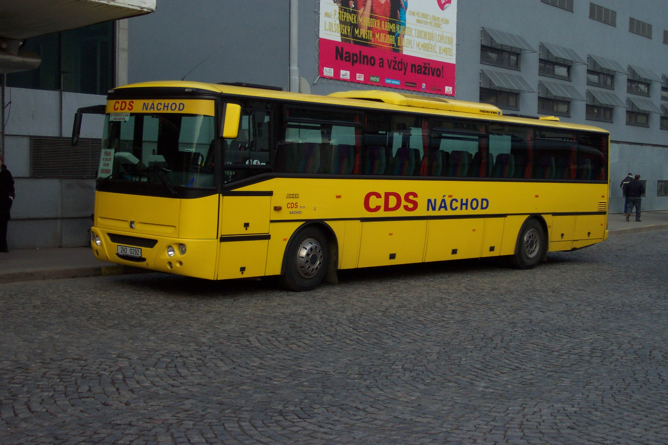 Bus type Karosa Axer of CDS Náchod company at Prague Florenc terminal